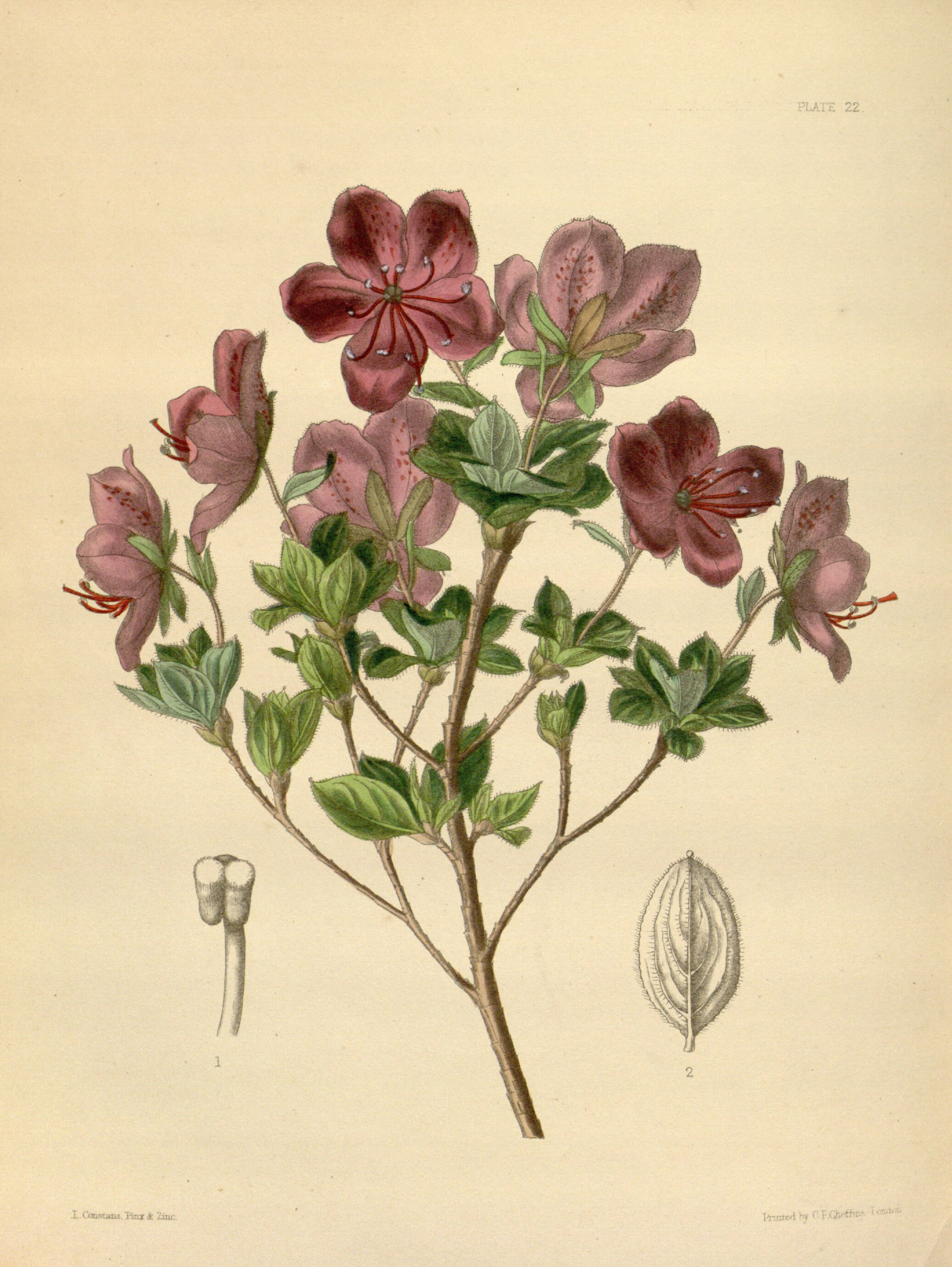 Therorhodion camtschaticum (Pall.) Small, syn. Rhododendron camtschaticum Pall.